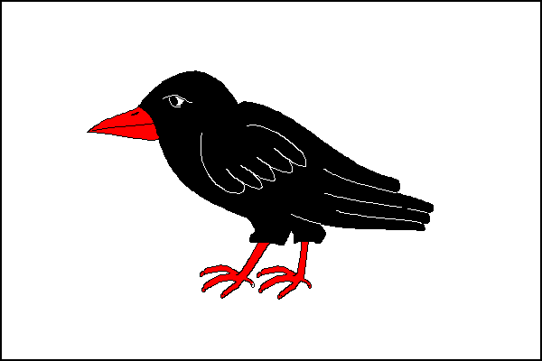 Municipal Flag of Roztoky village, Rakovník District, Czech Republic.